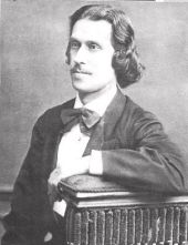 Josef Strauss (August 20, 1827 - July 22, 1870) was an Austrian composer. He was fondly referred to as 'Pepi' by his family and close friends.